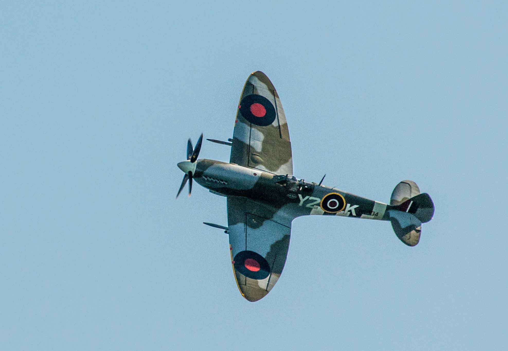 Restored Spitfire CGYQQ Y2K S/N TE294 (nicknamed the Flight-Lieutenant "Rosie" Arnold) in the air over Comox BC Canada, during a cross-Canada tour.